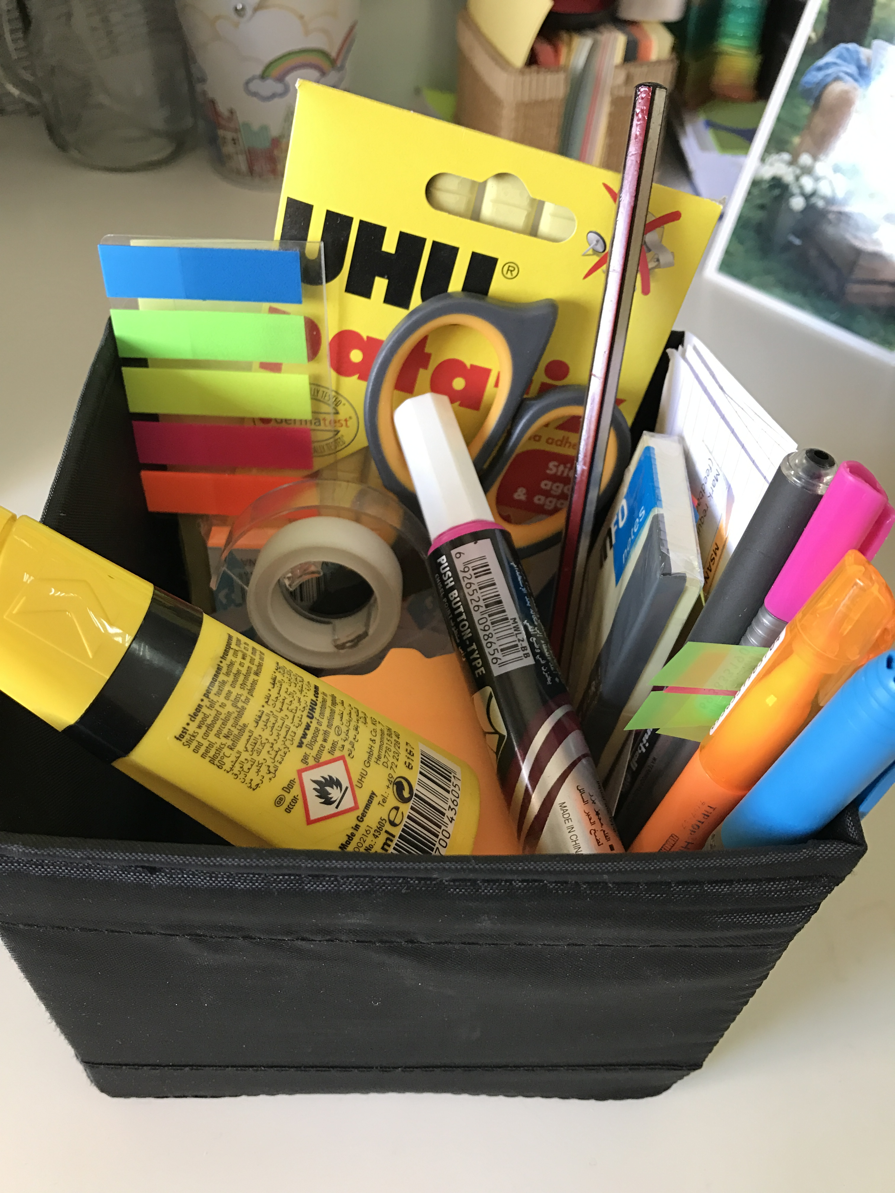 Stationery Box (not "stationary") قرطاسية منوعة